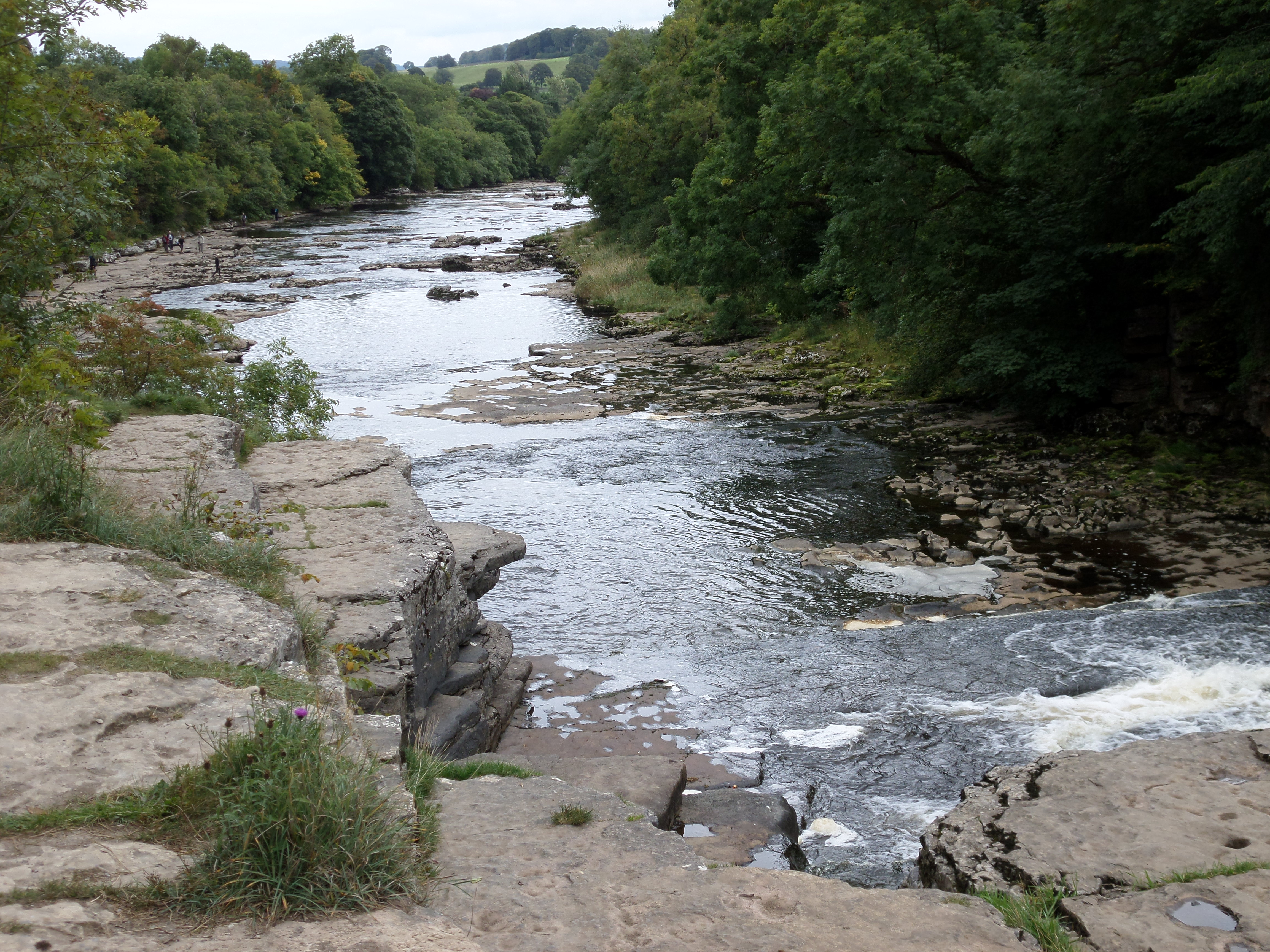 The lowest section of the Aysgarth Falls on the River Ure in Yorkshire, looking down river.